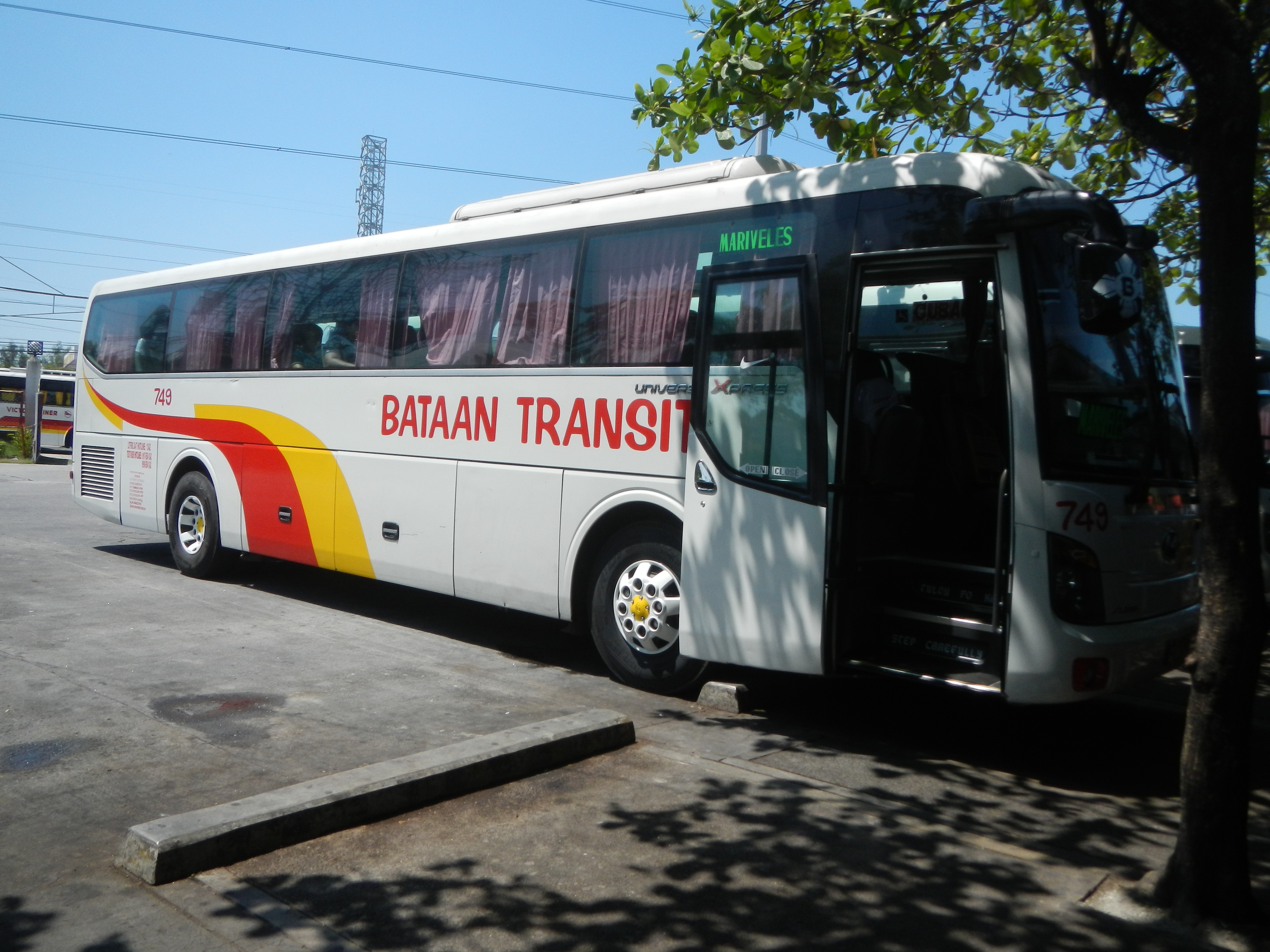 Victory Liner and Bataan Transit at Double Happiness restaurant in Sta Cruz Lubao Pampanga.